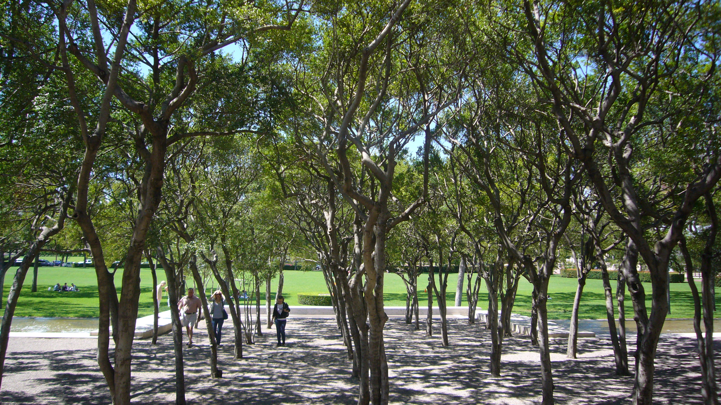 Kimbell Art Museum - the tree-lined courtyard at the main entry